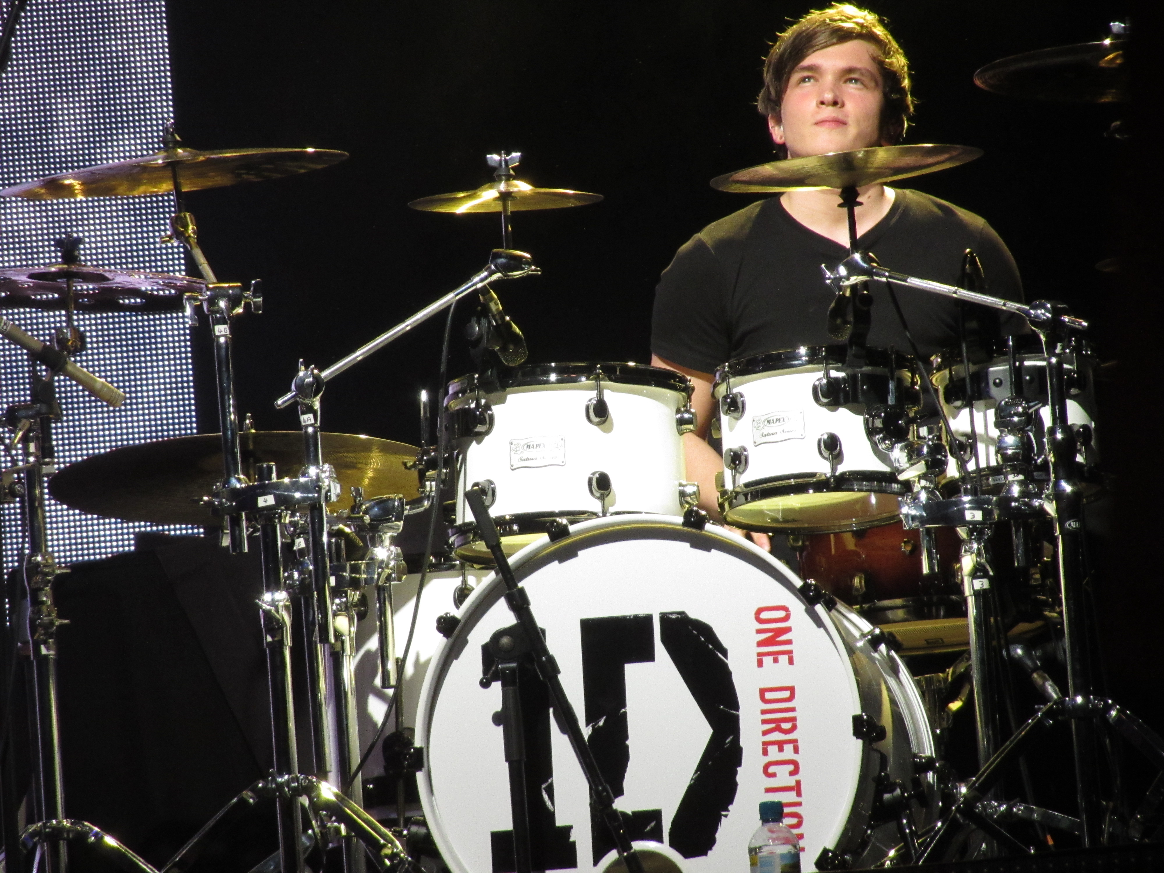 Josh Devine drumming for One Direction, Clyde Auditorium, Glasgow, Saturday 14 January 2012